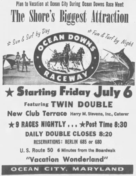 A 1962 newspaper advertisement for Ocean Downs racetrack in Maryland.